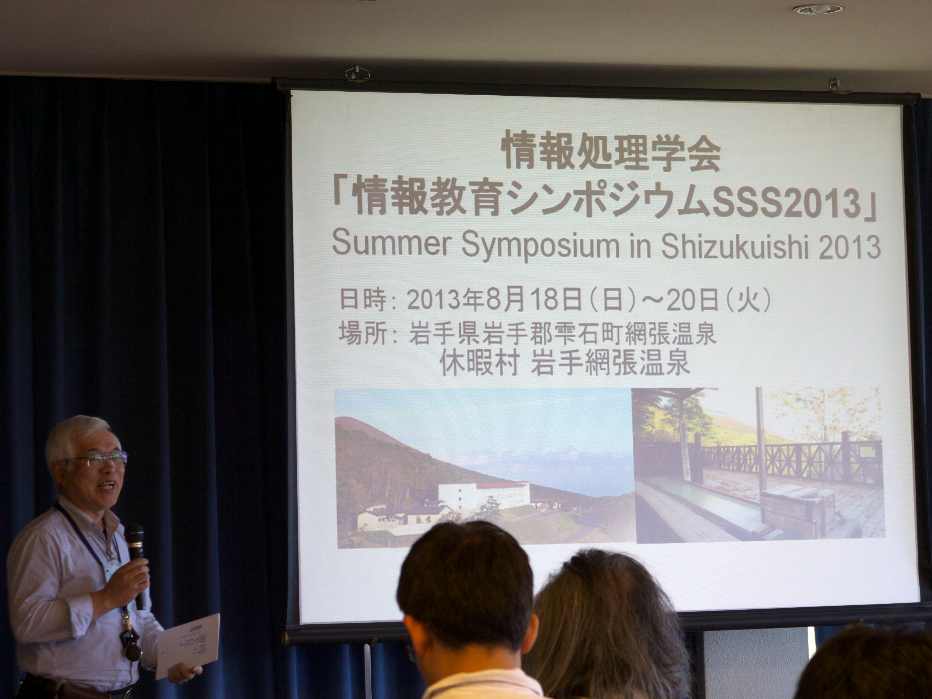 Naoyoshi Suzuki, Professor of the School of Management and Information, University of Shizuoka, attended the Summer Symposium in Shizuoka 2012 at the Mihoen Hotel in Shizuoka City, Shizuoka Prefecture on August 22, 2012.